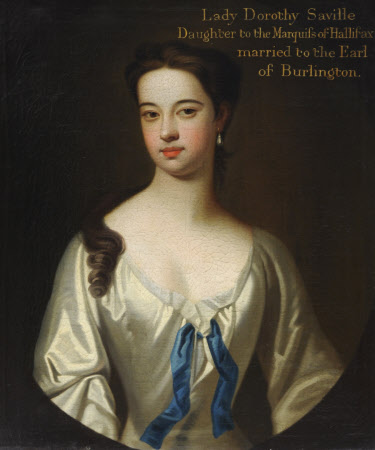 Possibly Lady Dorothy Savile, Countess of Burlington and Countess of Cork (1699-1758)